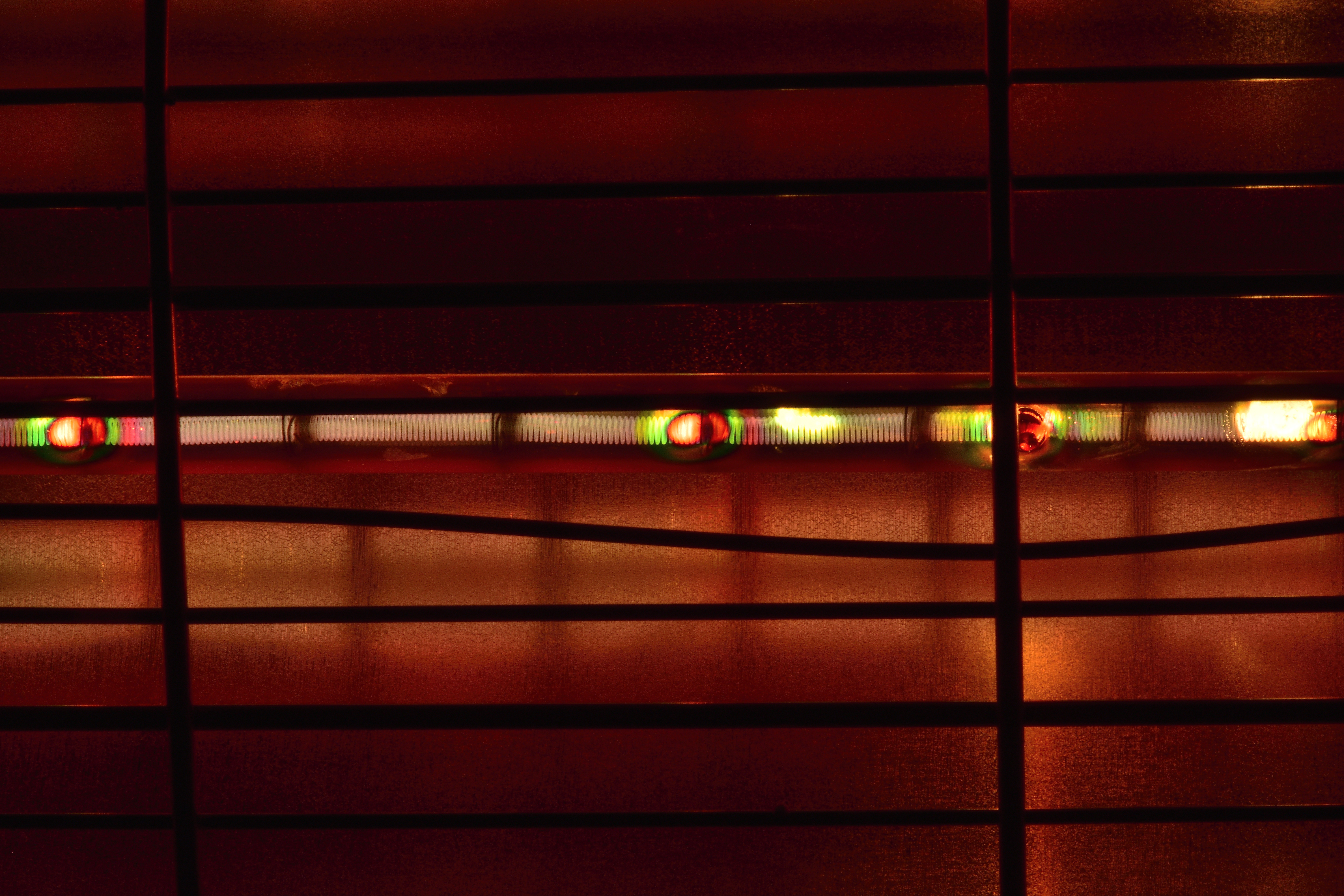 Coiled nichrome alloy wire inside halogen radiant heater. The coiled wire is contained within a sealed quartz envelope.